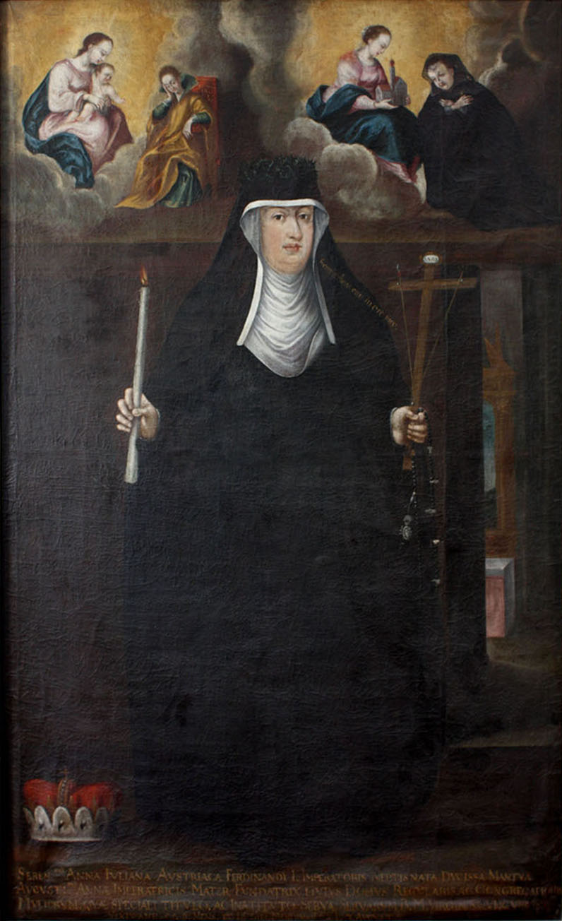 Anne Juliana Gonzaga